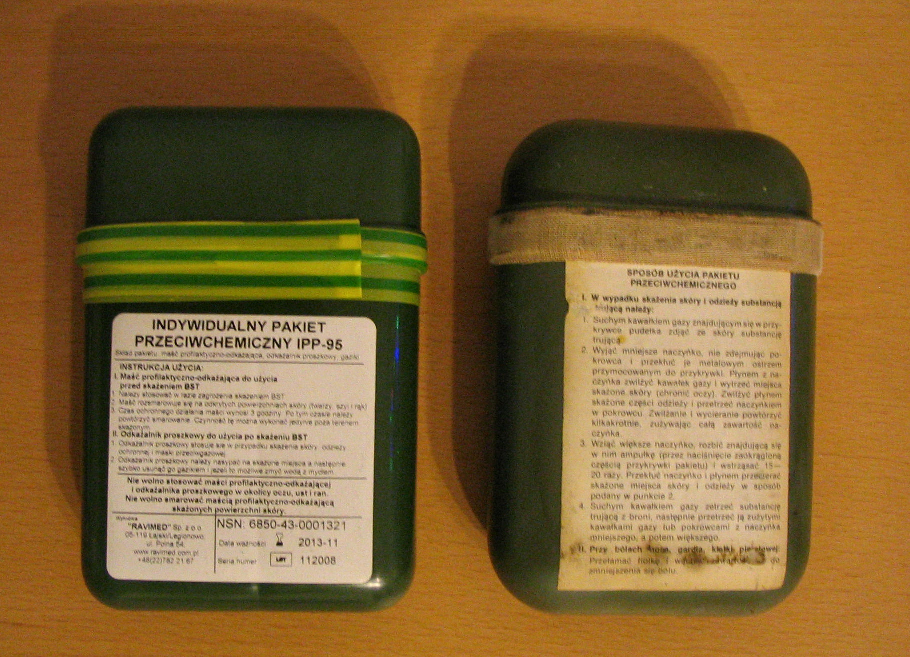 IPP both new,left and old, right